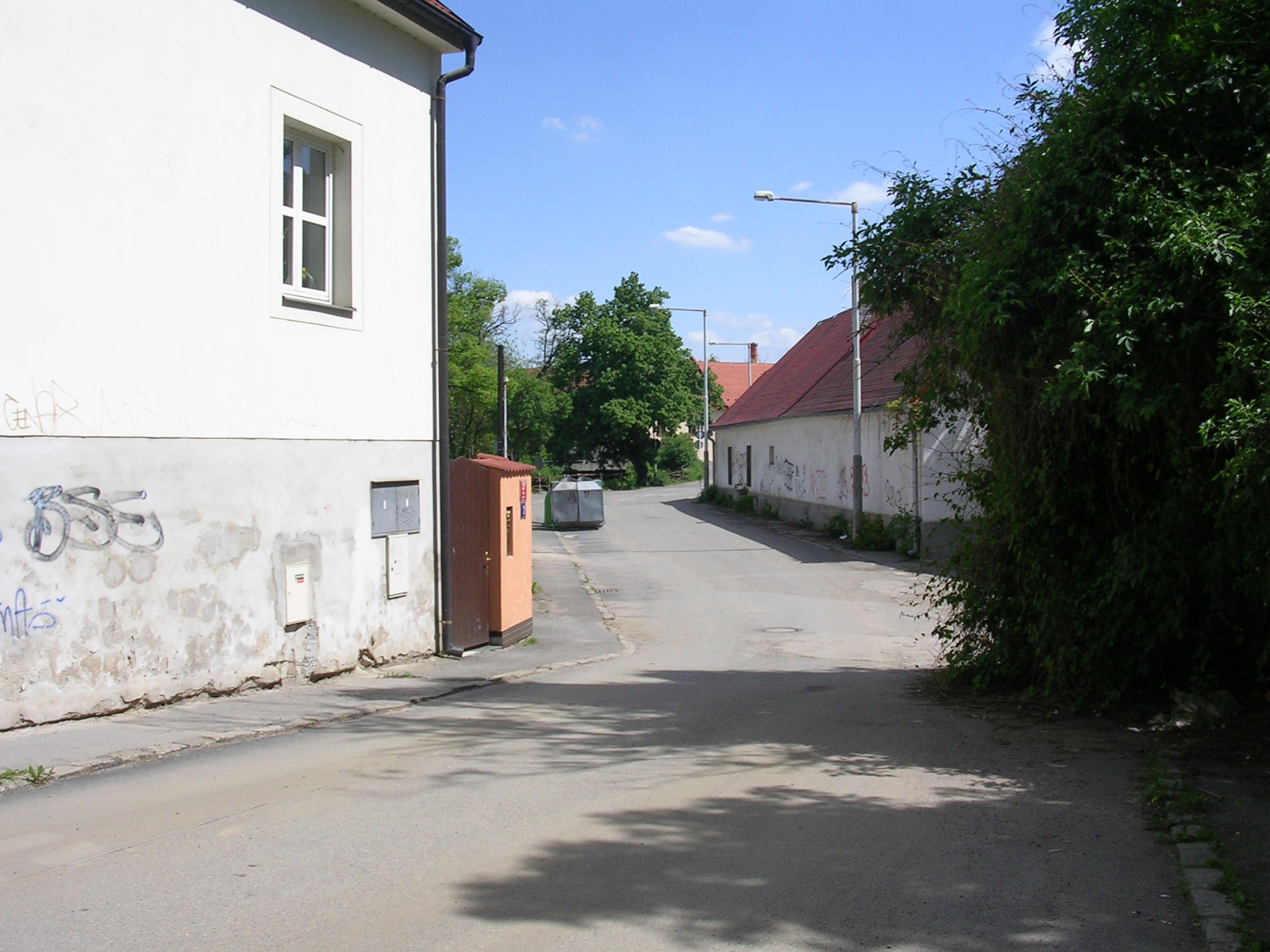 Michle, Prague, the Czech Republic. Street "U michelského mlýna".